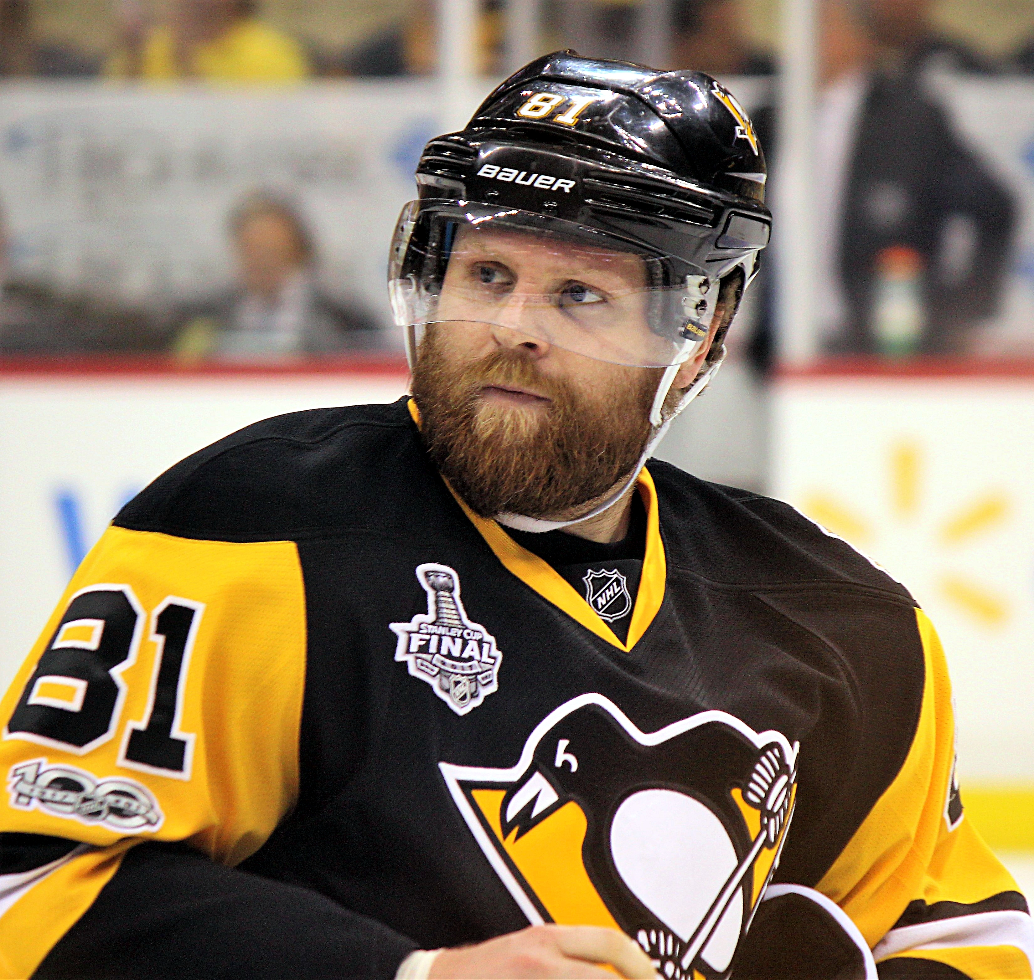 Pittsburgh Penguins forward Phil Kessel during game 5 of the Stanley Cup Final against the Predators, June 8, 2017, at PPG Paints Arena in Pittsburgh, PA.